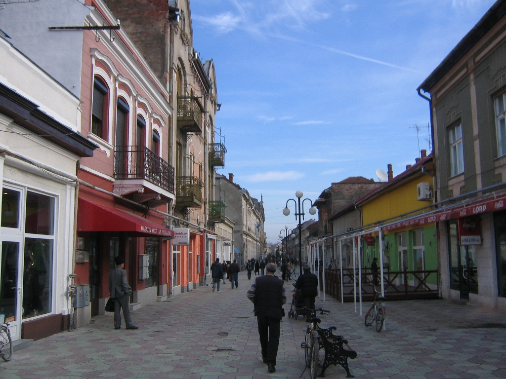 Lugoj city center, Romania